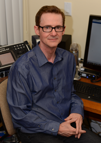 Portrait of Fred Davis, 2013